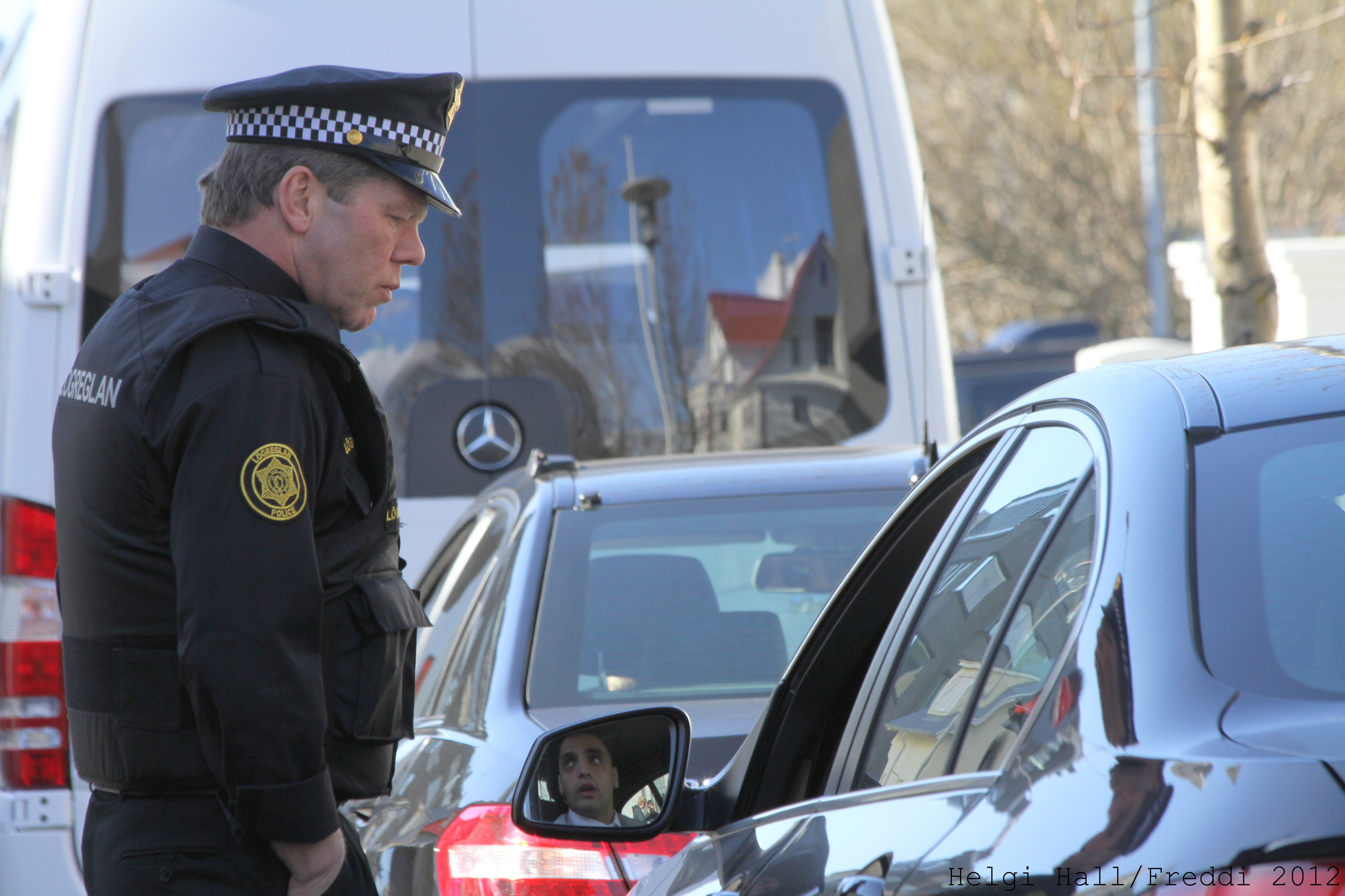 Man In the mirror